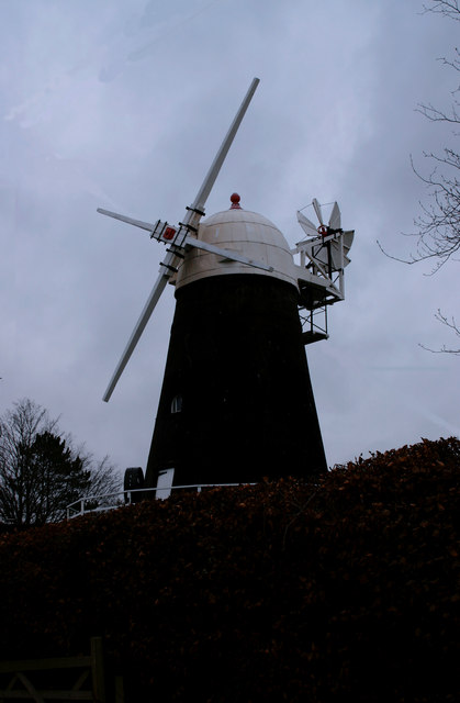 Barnham Windmill, Yapton Road, Barnham, West Sussex